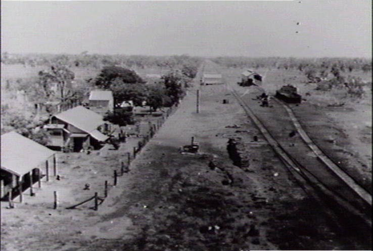 View over Birdum station, taken from water tank, 1940ies